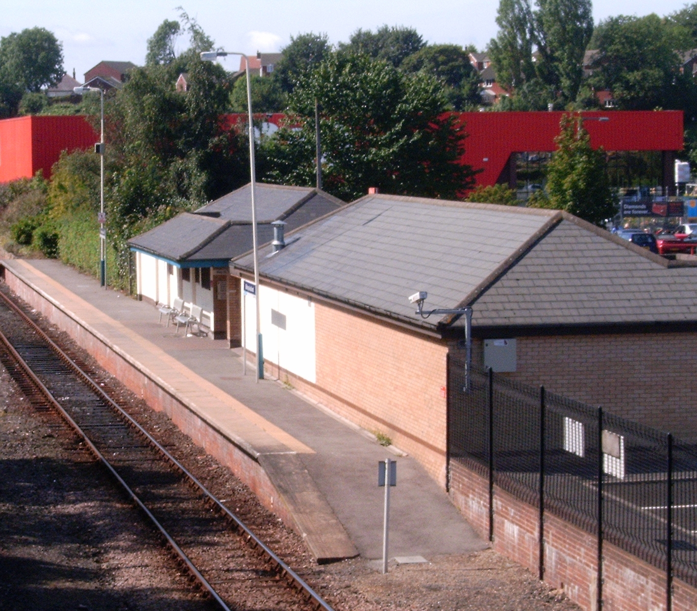 Bishop Auckland railway station Taken by myself 2007-08-22